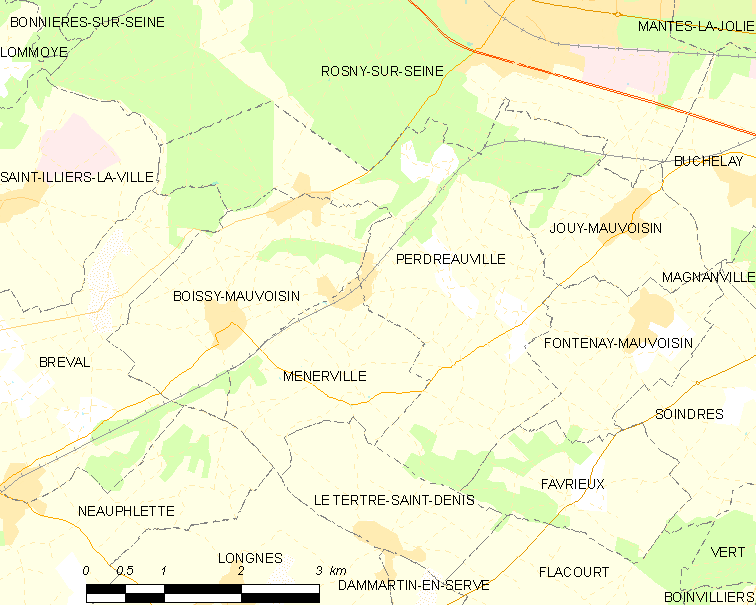 Map of French municipality Perdreauville